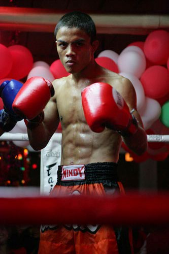 Kickboxer. Work by Dutch artist Peter Klashorst.